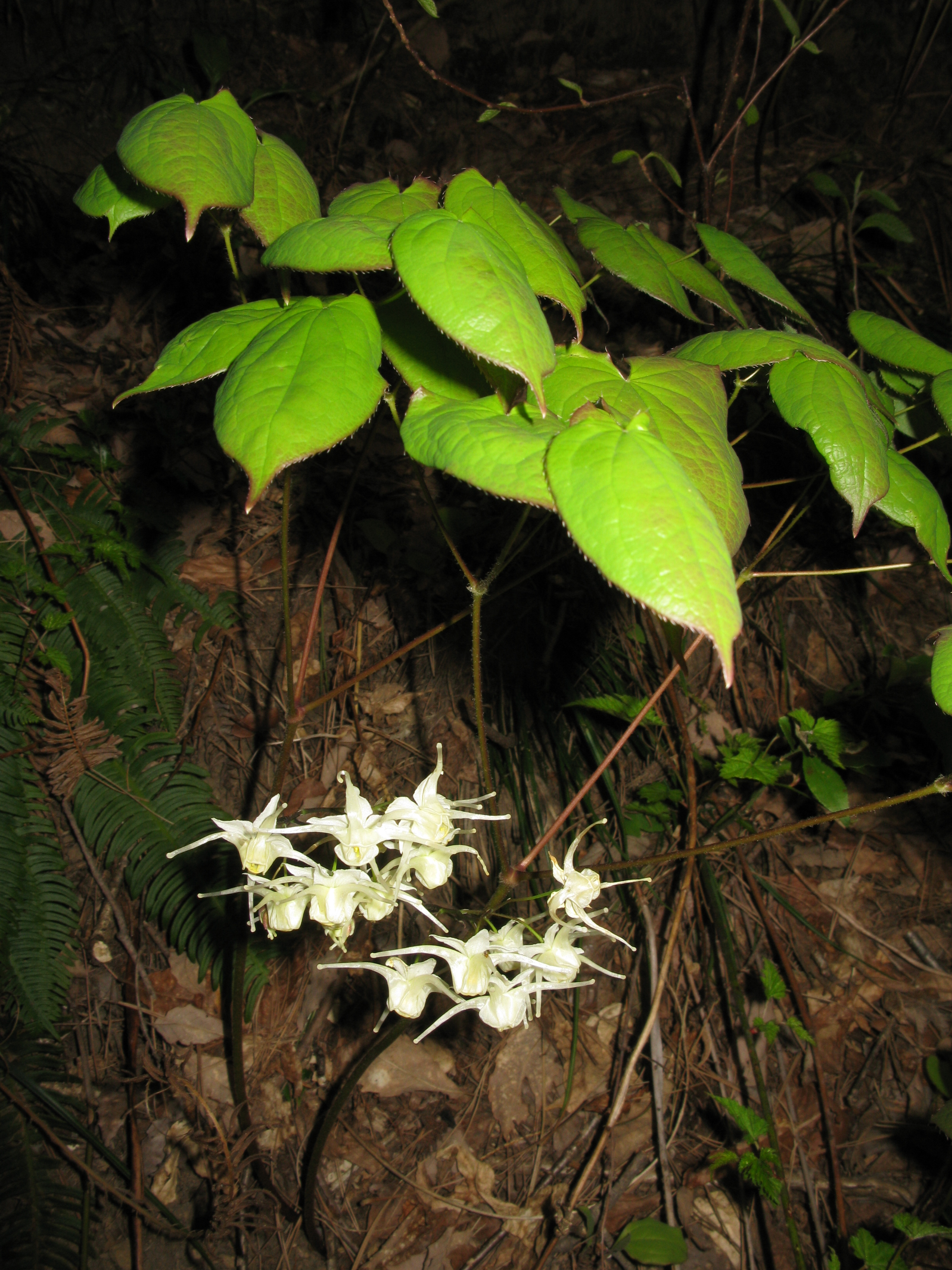 Epimedium koreanum, Aizu area, Fukushima pref., Japan